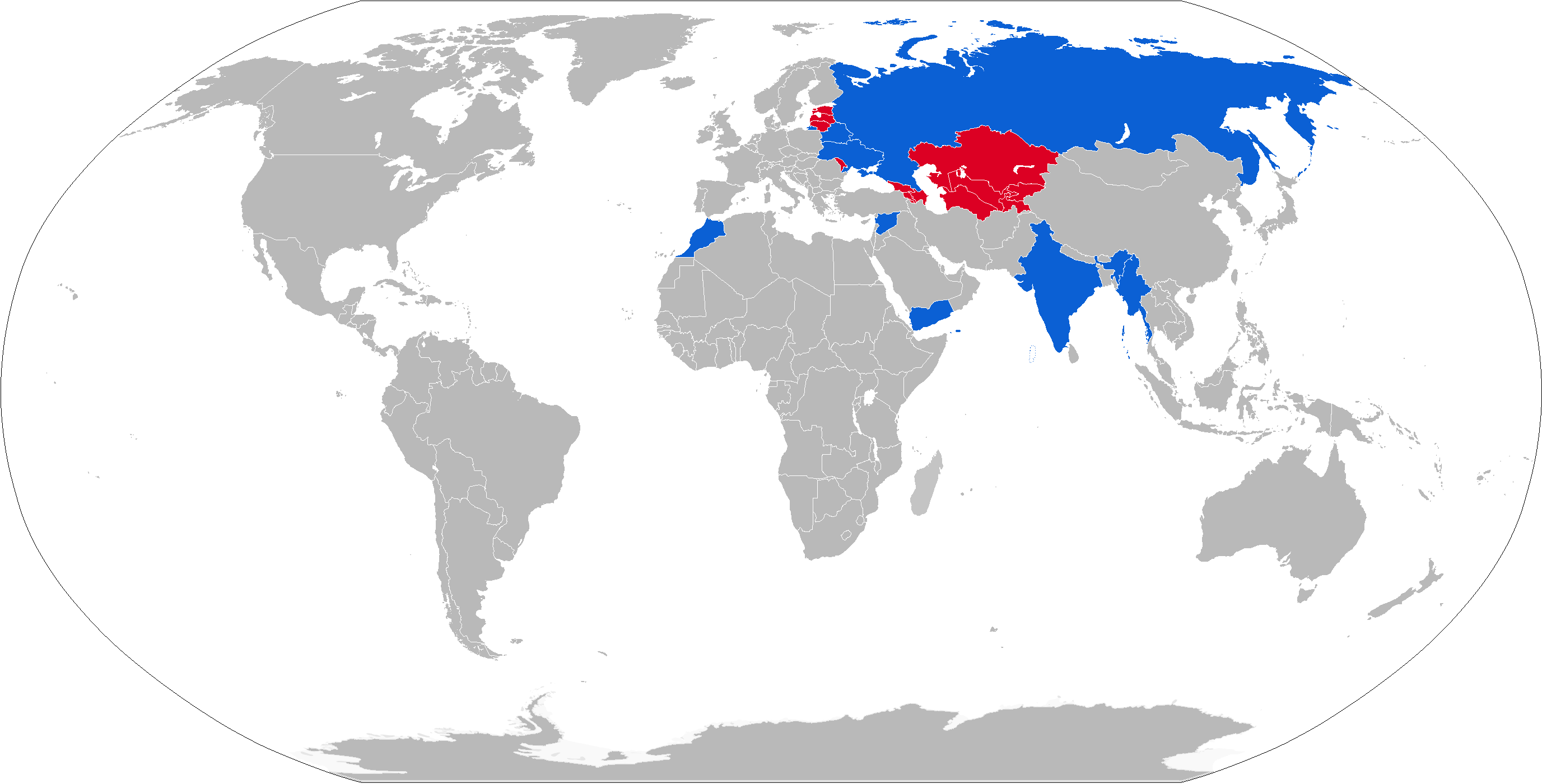 Map of 2K22 operators in blue with former operators in red